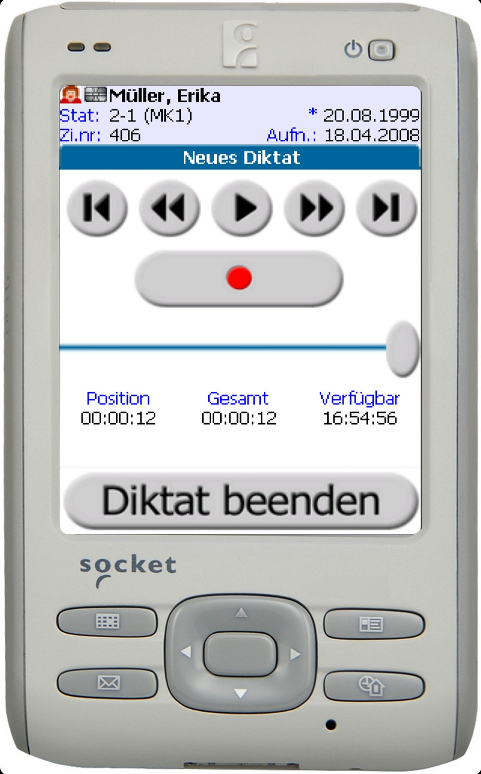 PDA